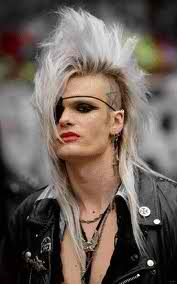 Simon Cruz with an eye patch